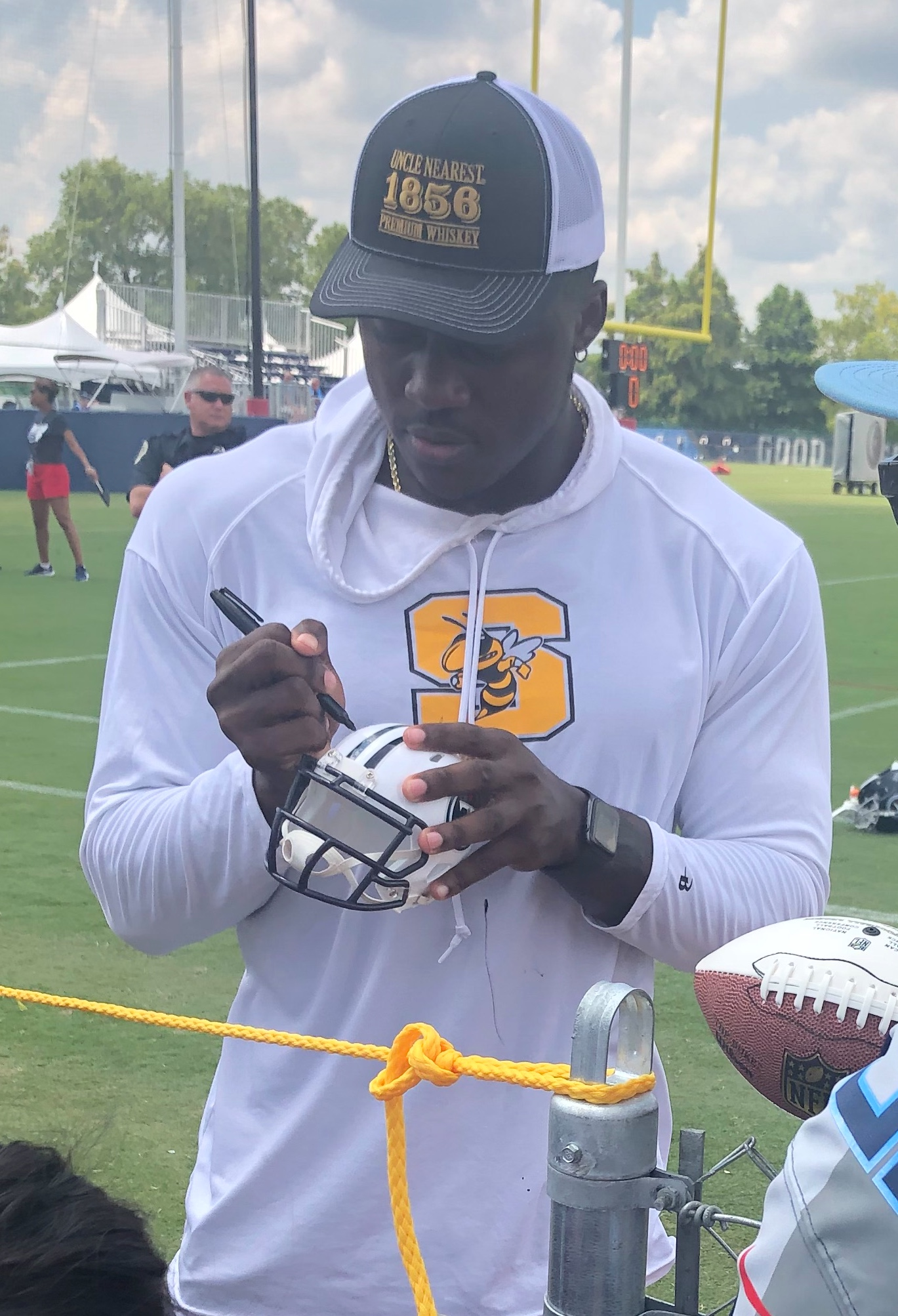 Tennessee Titans wide receiver A. J. Brown signs autographs at Titans Training Camp on August 2, 2019.